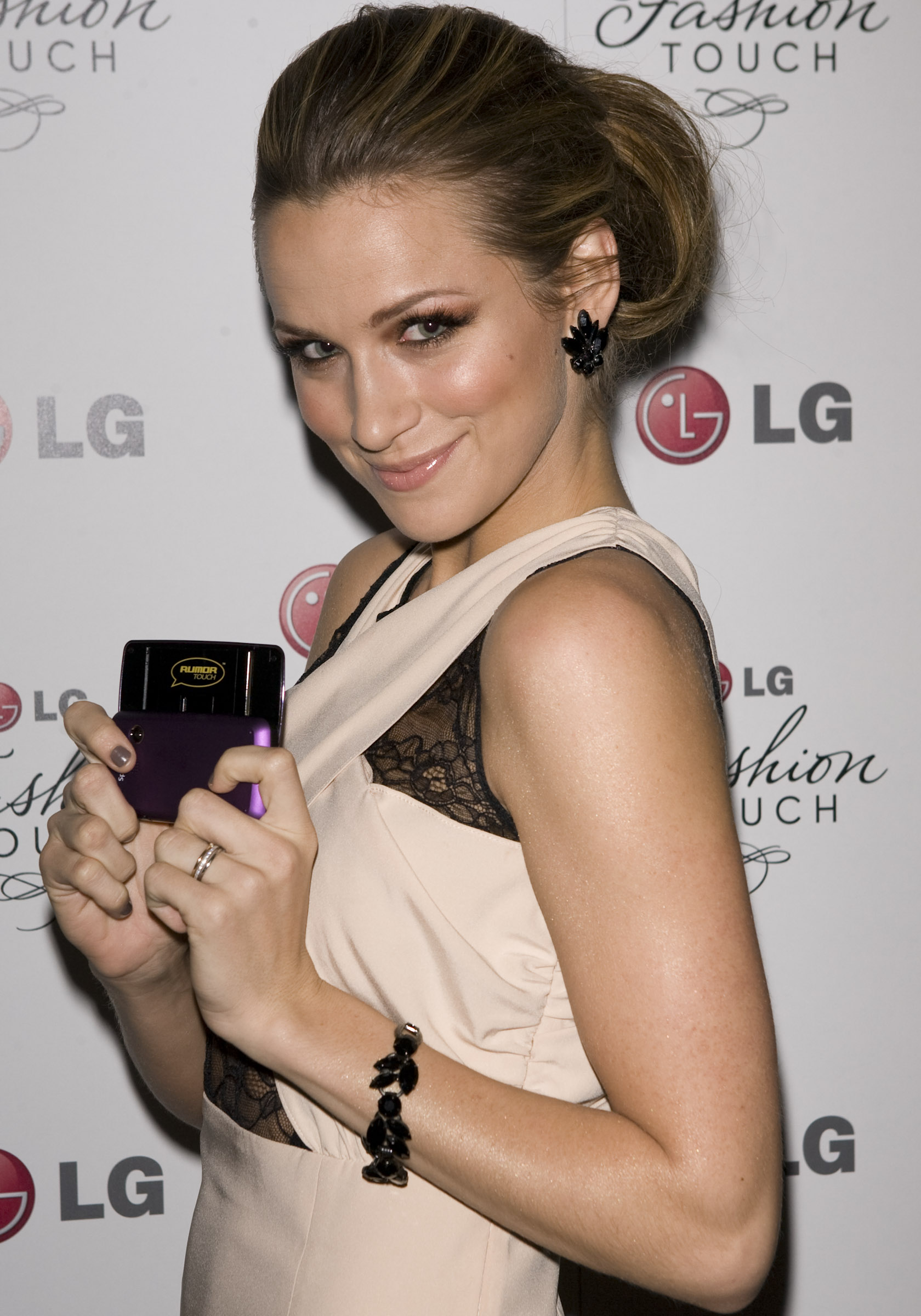 The American actress and model Shantel VanSanten displaying the LG Rumor Touch.